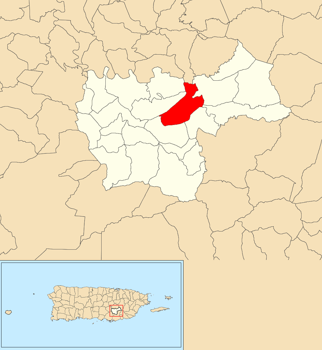 Monte Llano, Cayey, Puerto Rico locator map